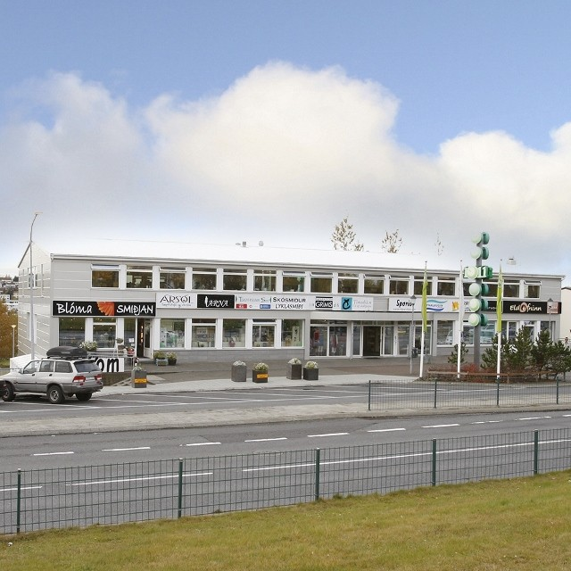 Grimsbaer, shopping centre in Reykjavík, Iceland, viewed from Bustadavegur